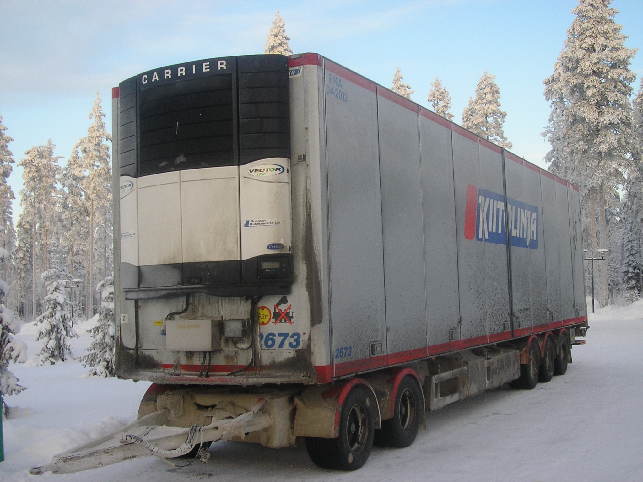 Kiitolinja trailer in Pyhäjärvi, Finland